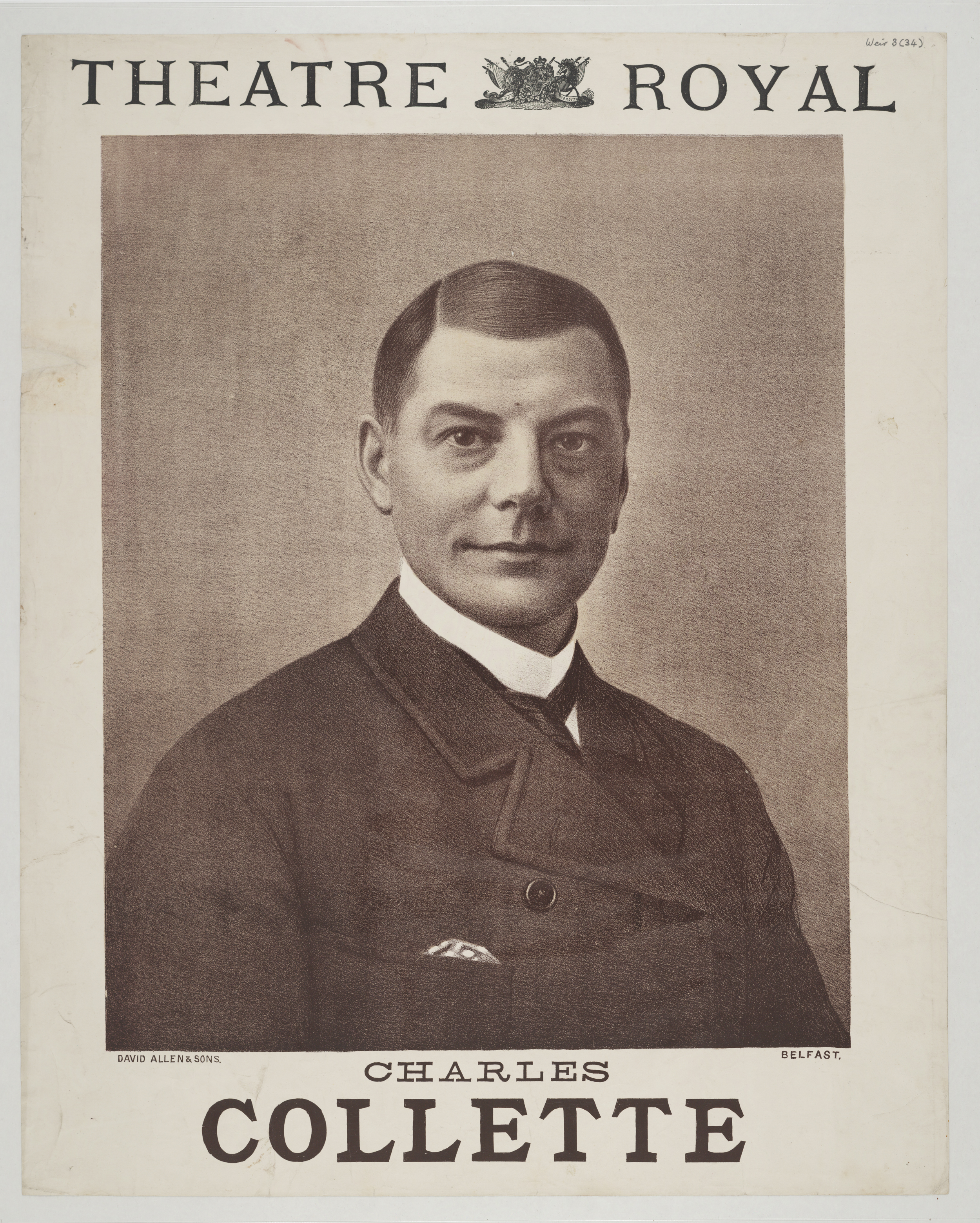 Charles Collette. Printed by David Allen & Sons, Belfast.